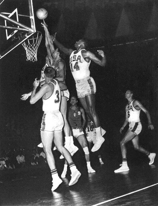 An attack of the U.S. team during the 1960 Olympics basketball match Italy vs United States at the Palazzetto dello Sport in Rome